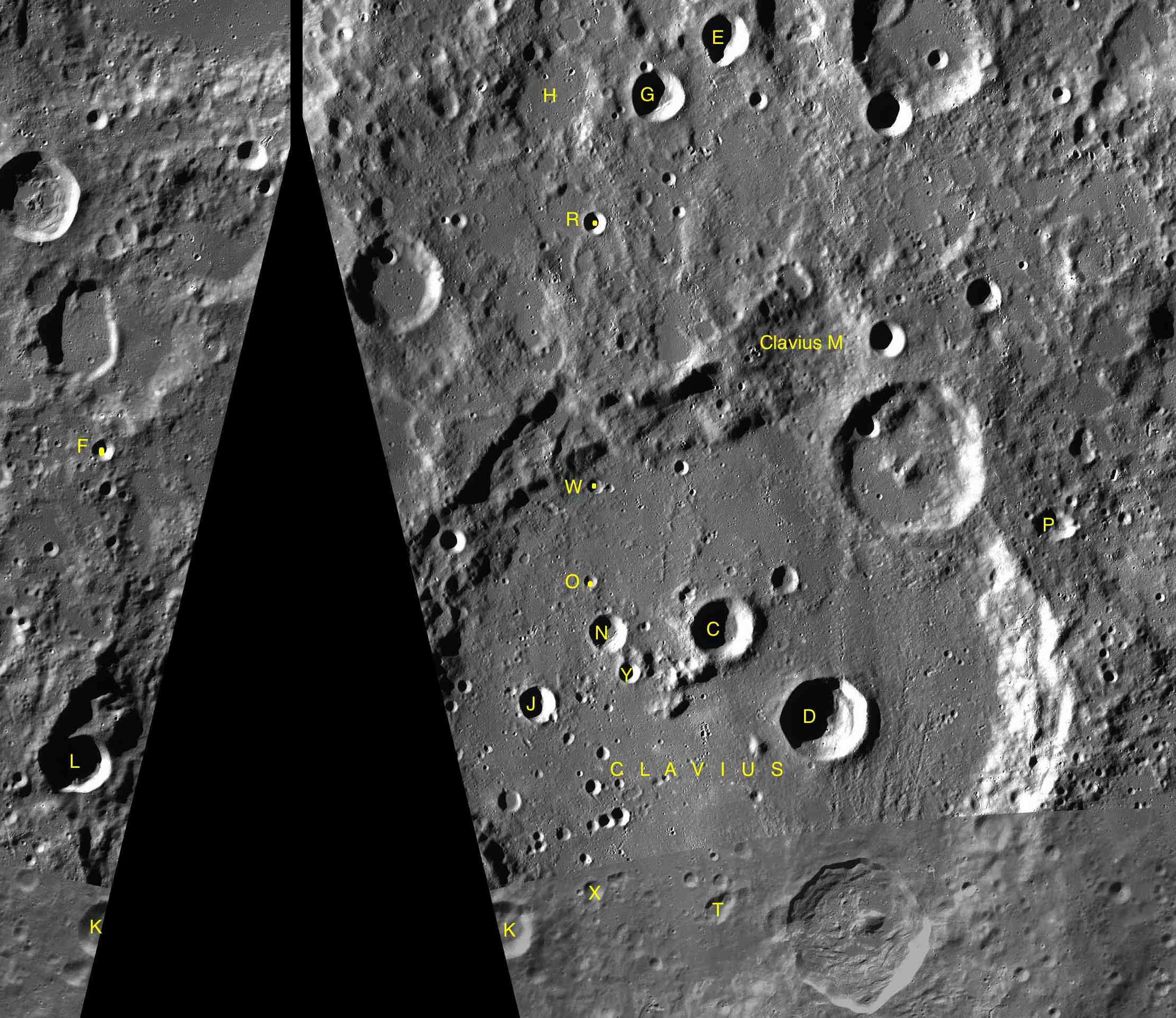 Parts of the charts LAC-125, LAC-126 used for the presentation